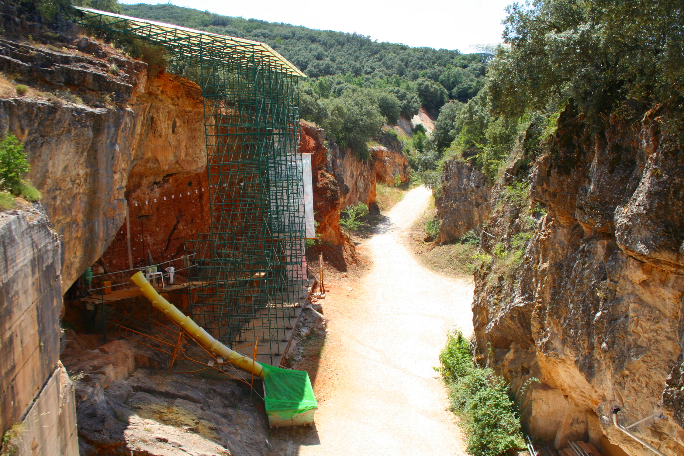 Trinchera Galería, Atapuerca, Spain